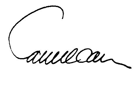 Signature of Daniel Oduber Quirós, President of Costa Rica 1974-1978.